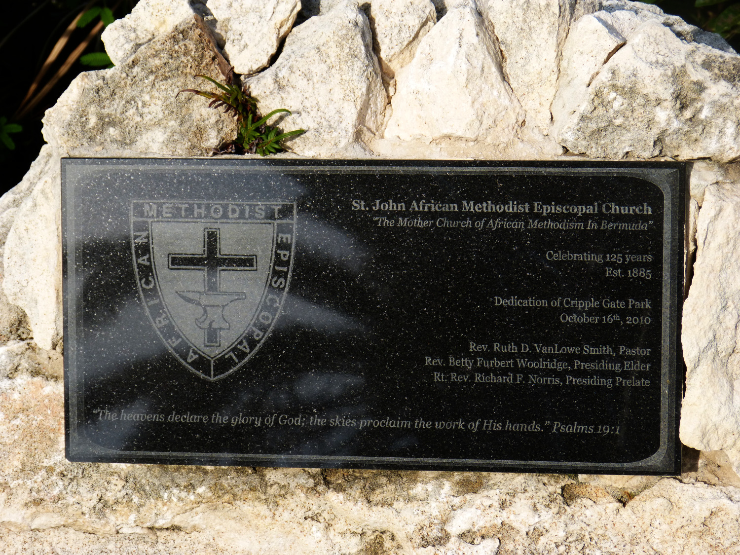 A plaque emplaced on 16 October, 2010, on the waterside of Harrington Sound, opposite St. John African Methodist Episcopal Church in Hamilton Parish, Bermuda, commemorating the 125th anniversary of the 1885 establishment of the church.